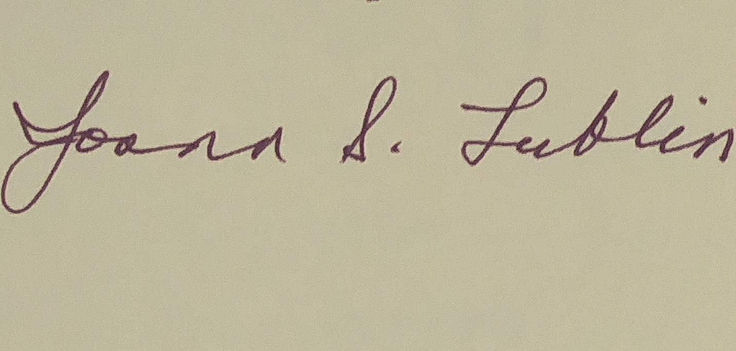 Joann S. Lublin's signature, cropped from this image